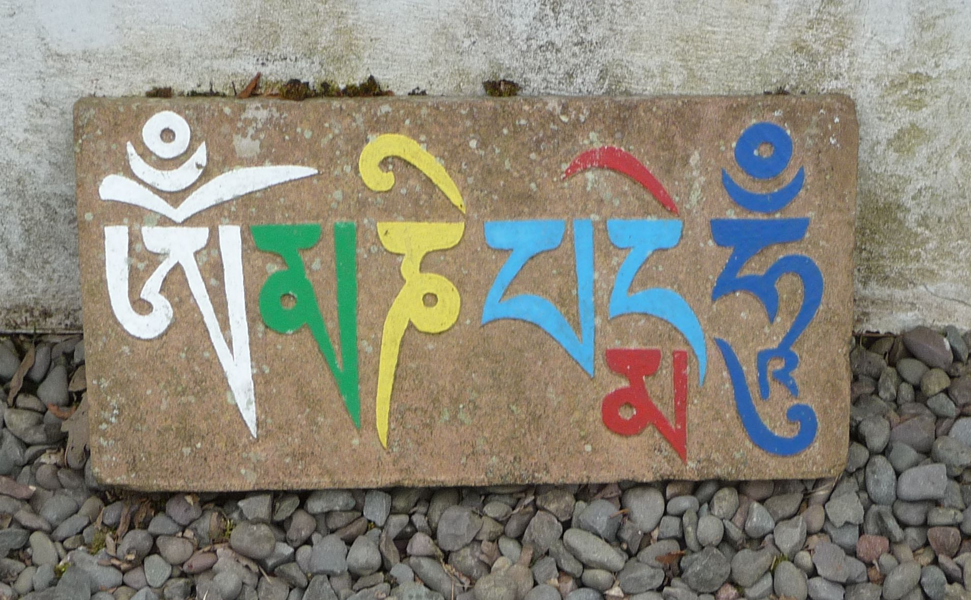 Kagyu Samyé Ling Monastery and Tibetan Centre at Eskdalemuir, Dumfries and Galloway, Scotland